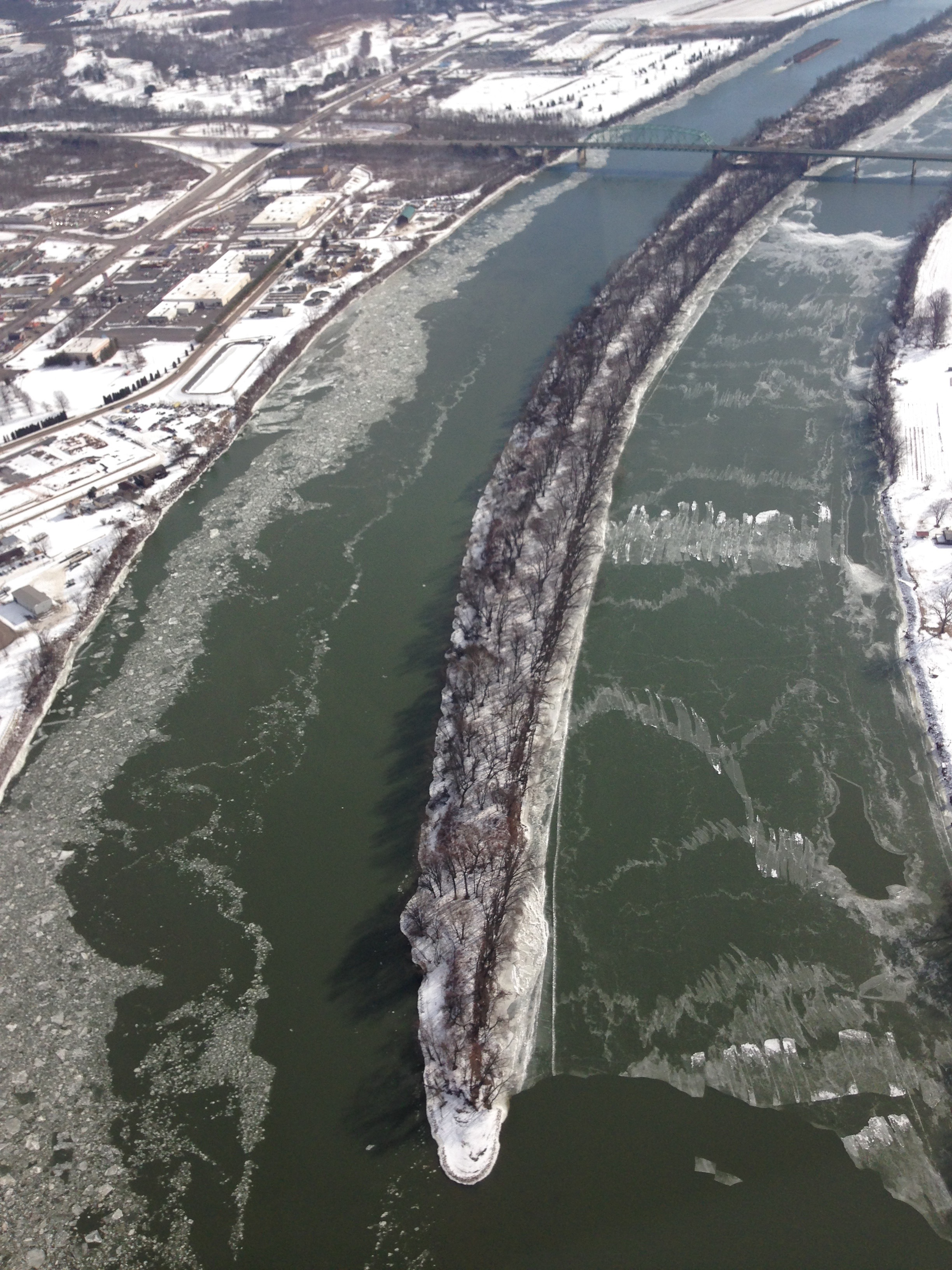 Aerial view of Buckley Island on the Ohio River. January 31, 2014.